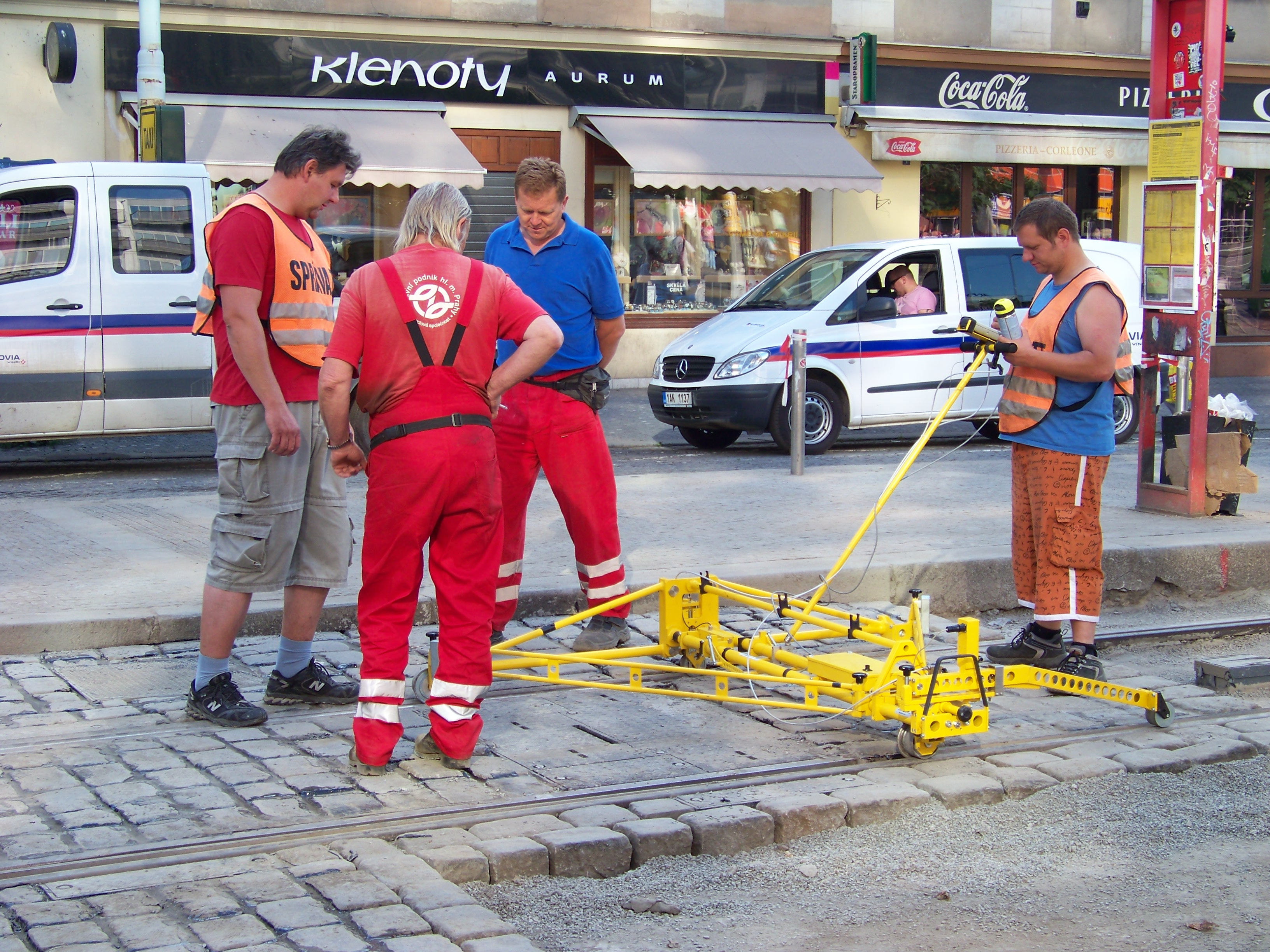 Smíchov, Prague, the Czech Republic. Nádražní street, rail gauge measure.